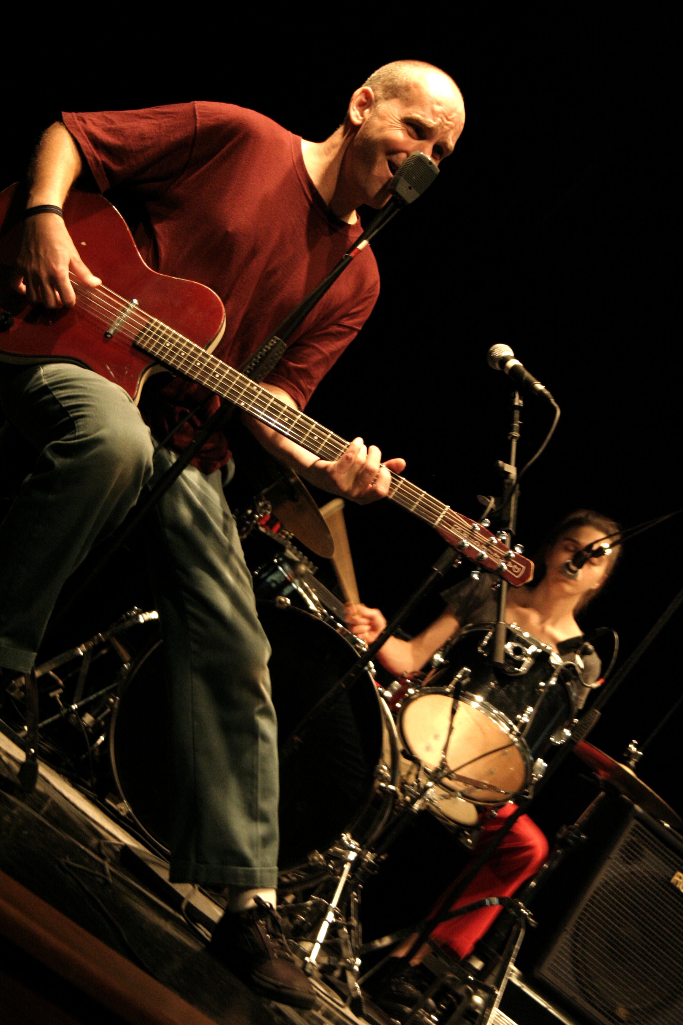 The Evens